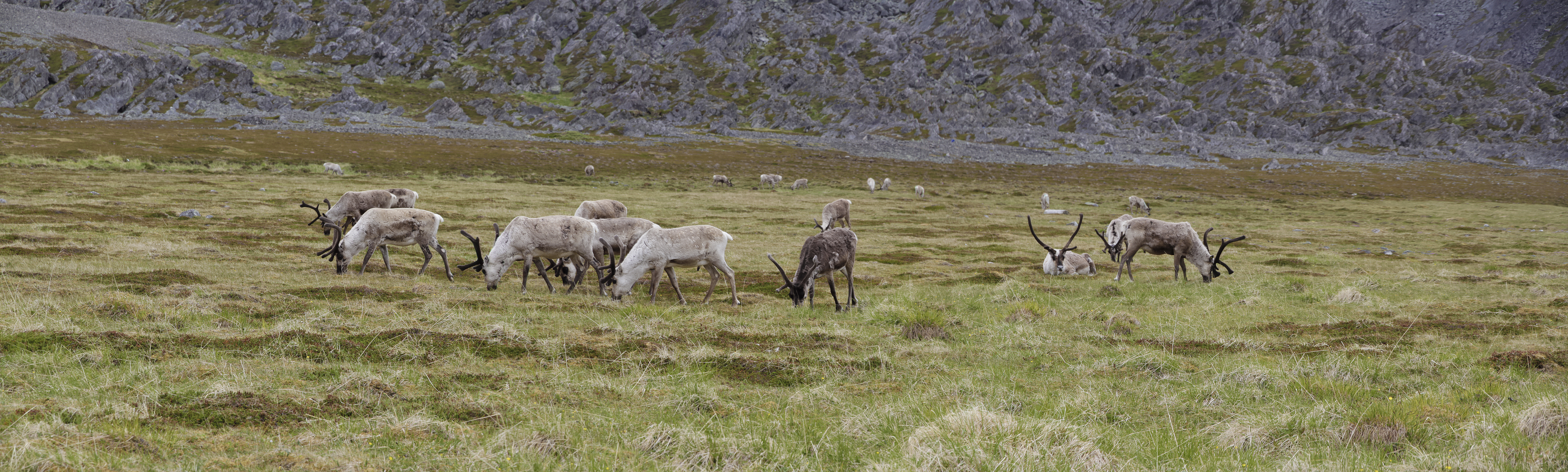 A herd of reindeer at Hamningberg in Varangerhalvøya, Finnmark, Norway in 2012 June.